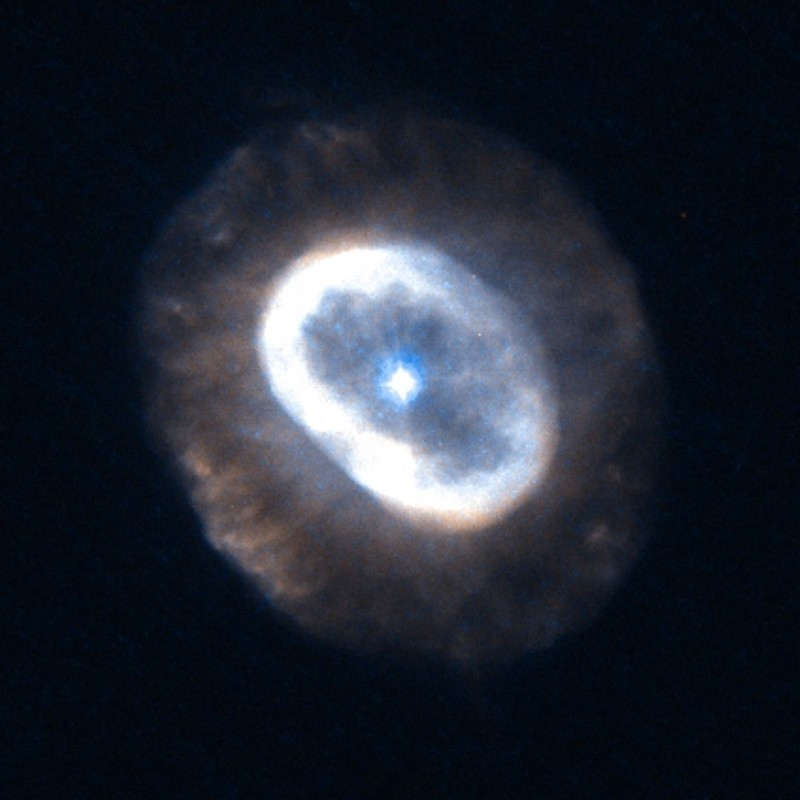 NGC 7662 planetary nebula by Hubble space telescope. (WFPC2, 42″ view, North is up)